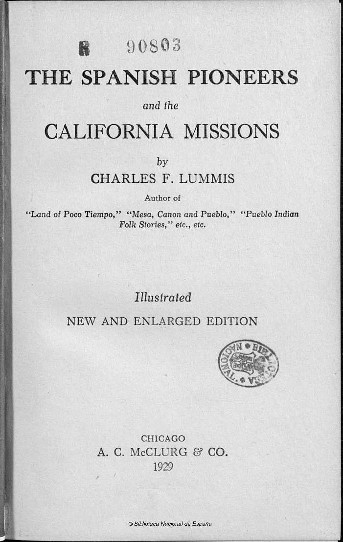 The Spanish pioneers and the California missions by Charles F. Lummis (1859-1928) ; edit. Chicago A.C. McClurg & Co.